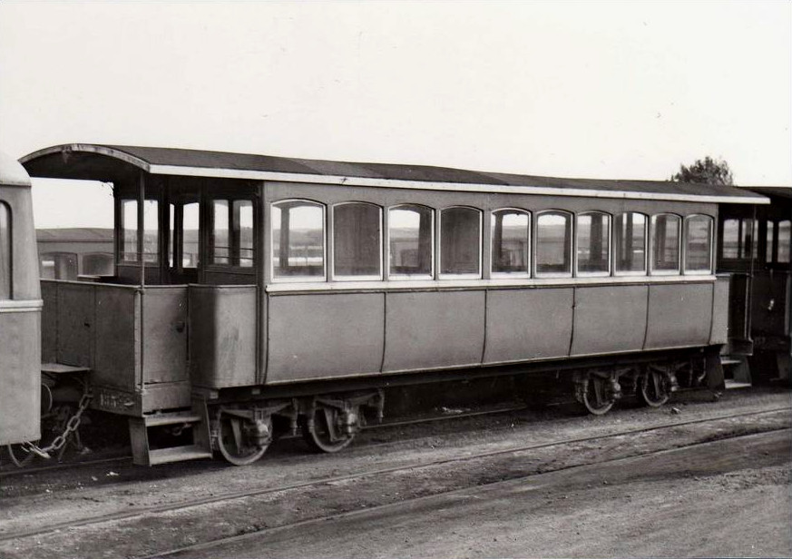 Côtes du Nord - Voiture n° B 153 en gare - SAINT-BRIEUC CENTRALE (22)